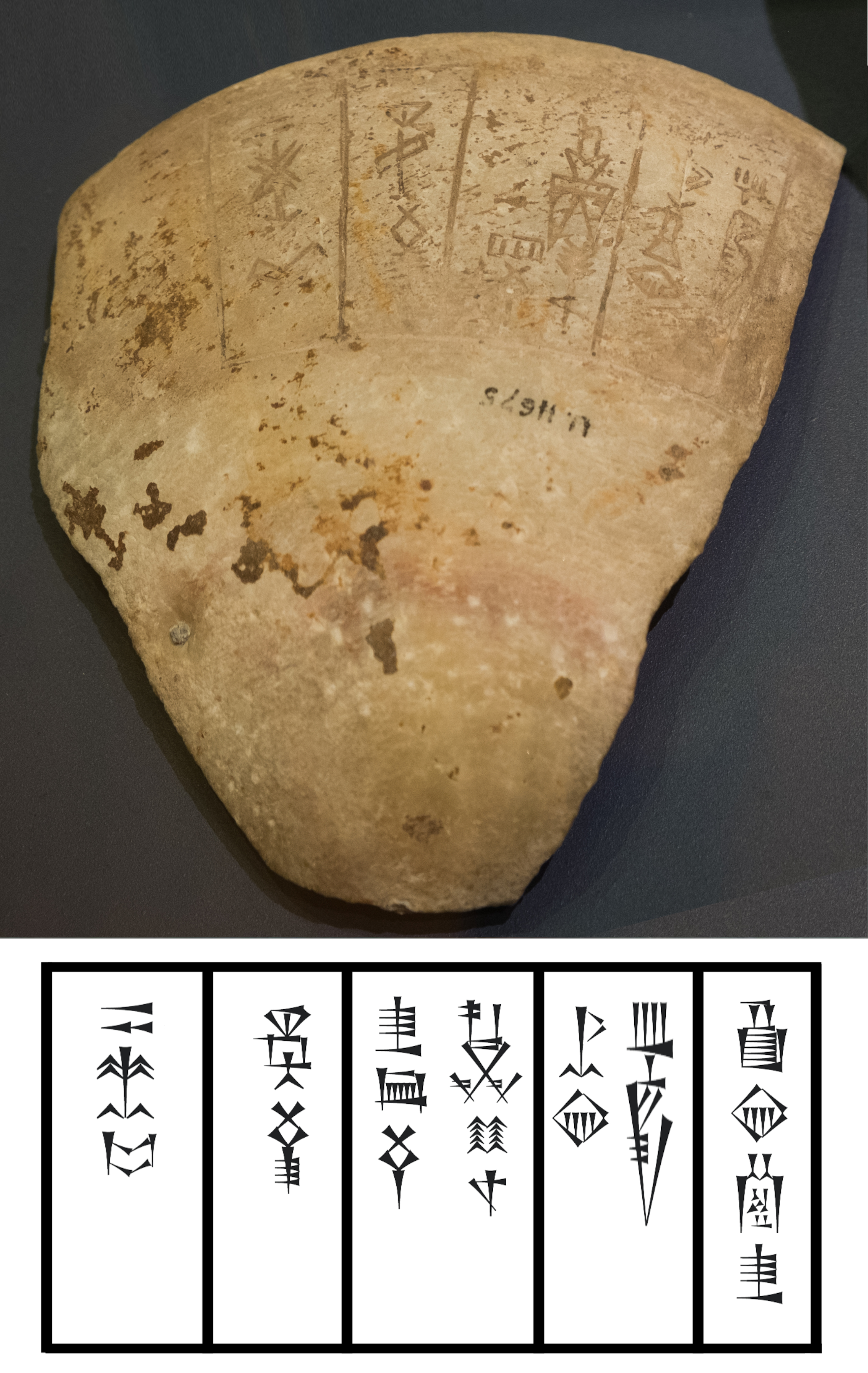 Meskiagnun Gansaman bowl 122255 (with transcription)